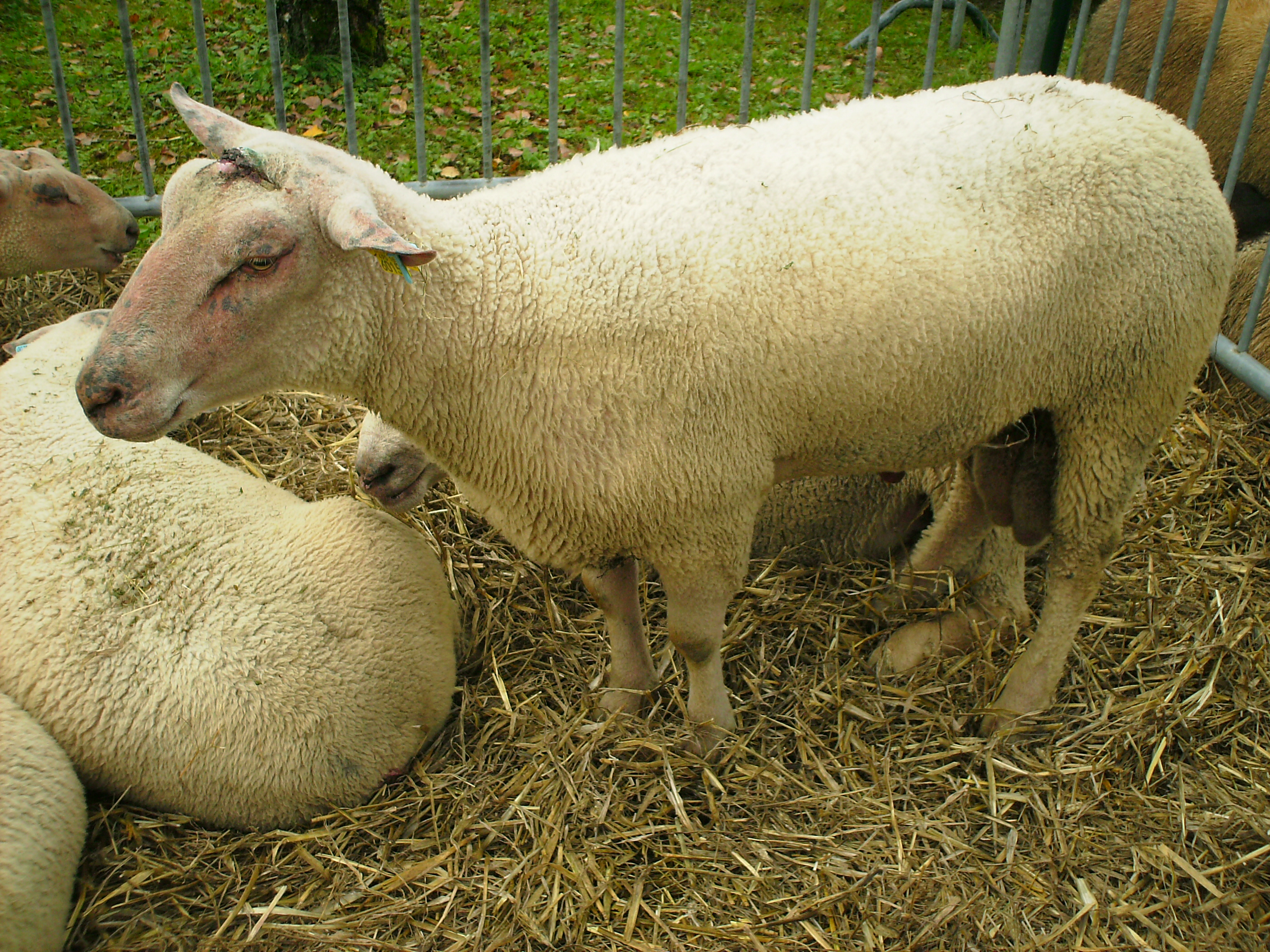 Sheep, "Charollaise" french race